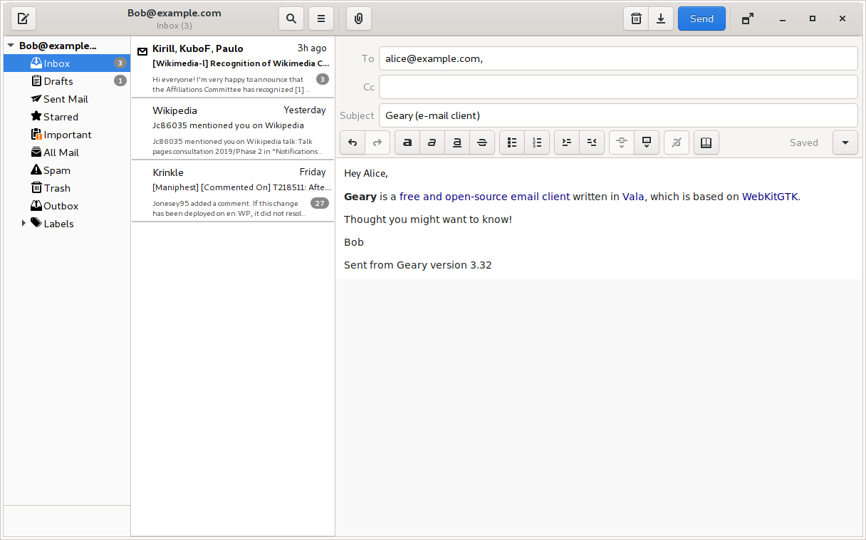 Screenshot of the Geary email client as of version 3.32